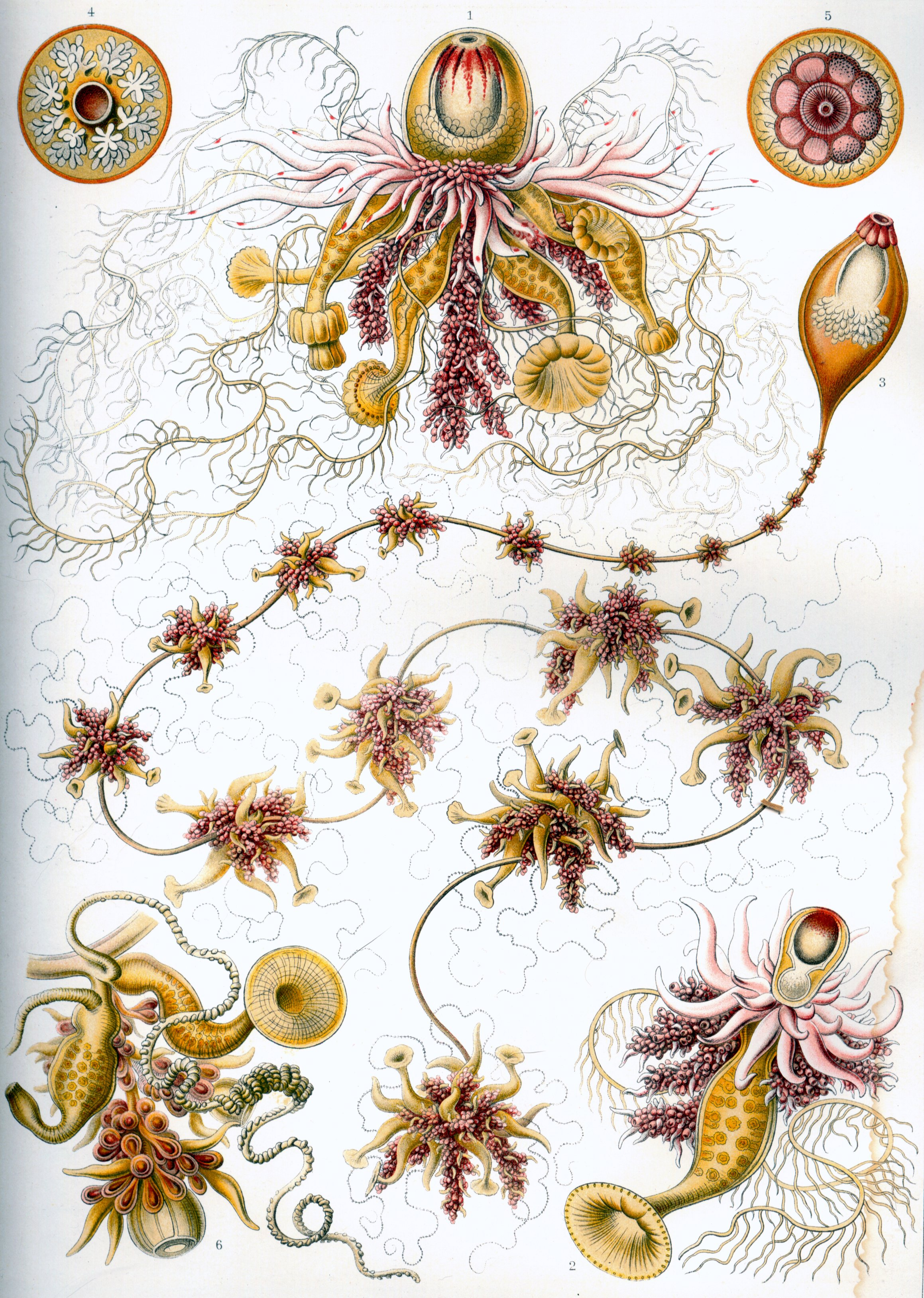 (top center): Epibulia Ritteriana (Haeckel) = Epibulia ritteriana Haeckel, 1888?, mature colony (bottom right): Cystalia monogastrica (Haeckel) = Epibulia ritteriana Haeckel, 1888?, immature colony (center): Salacia polygastrica (Haeckel) = Salacella uvaria (Fewkes, 1886)?, colony (top left): Salacia polygastrica (Haeckel) = Salacella uvaria (Fewkes, 1886)?, gas bladder in cross-section (top right): Salacia polygastrica (Haeckel) = Salacella uvaria (Fewkes, 1886)?, gas bladder from above (bottom left): Salacia polygastrica (Haeckel) = Salacella uvaria (Fewkes, 1886)?, partial cluster of polyps (infertile) and medusae (fertile)